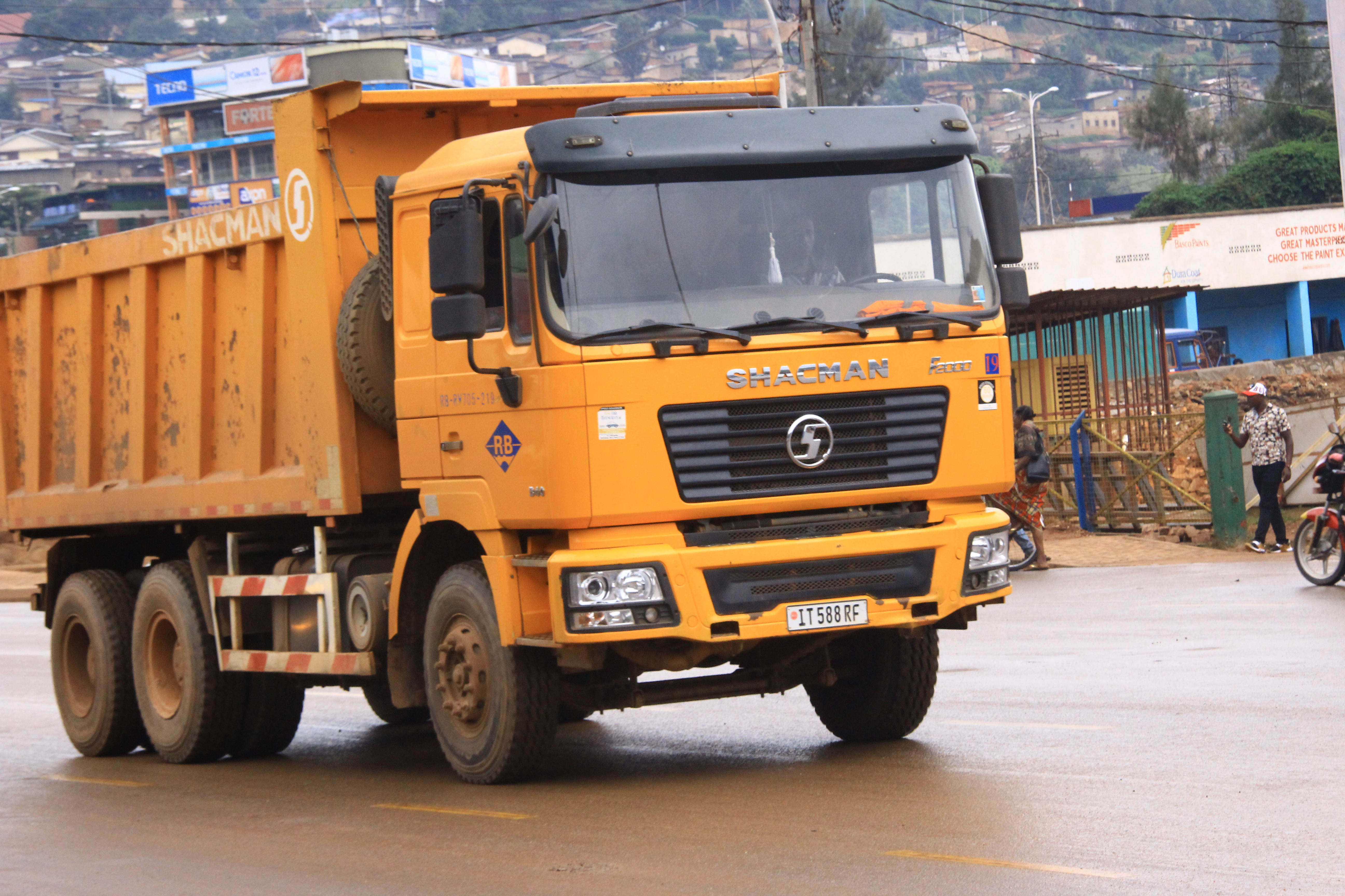 Orange big truck used in construction materials transportation This is an image with the theme "Africa on the Move or Transport" from: Rwanda